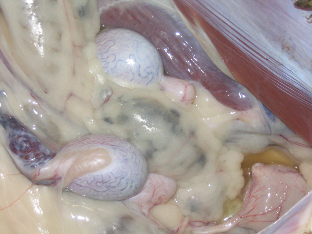 intraabdominal kryptorchism in a sheep